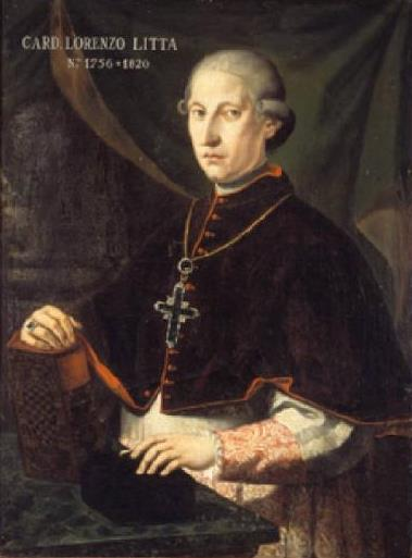 Lorenzo Litta (1756-1820), cardinal of the Roman Catholic Church